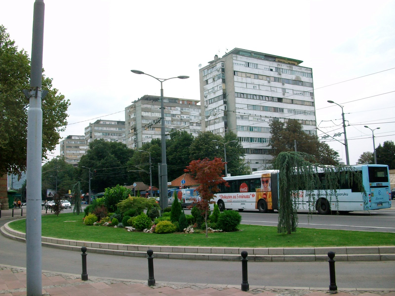 Bogoslovija quarter in Belgrade Српски (ћирилица): Насеље Богословија у Београду